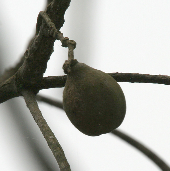 Description corrected as Terminalia bellirica at Jayanti in Buxa Tiger Reserve in Jalpaiguri district of West Bengal, India.